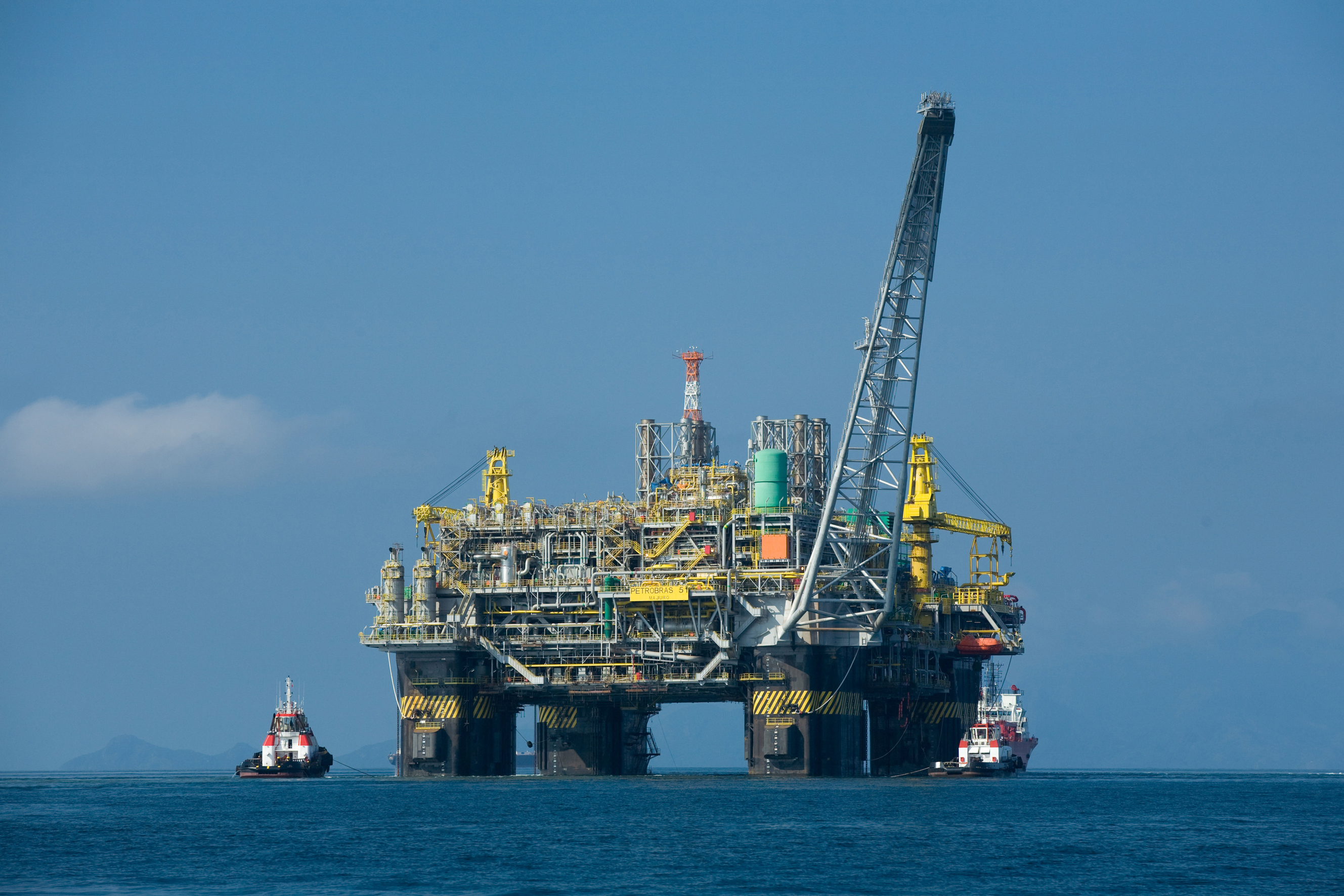 Brazil - The first 100% Brazilian oil platform, the P-51 will produce about 180 thousand barrels of oil and 6 million cubic meters of gas per day when operating at full load.